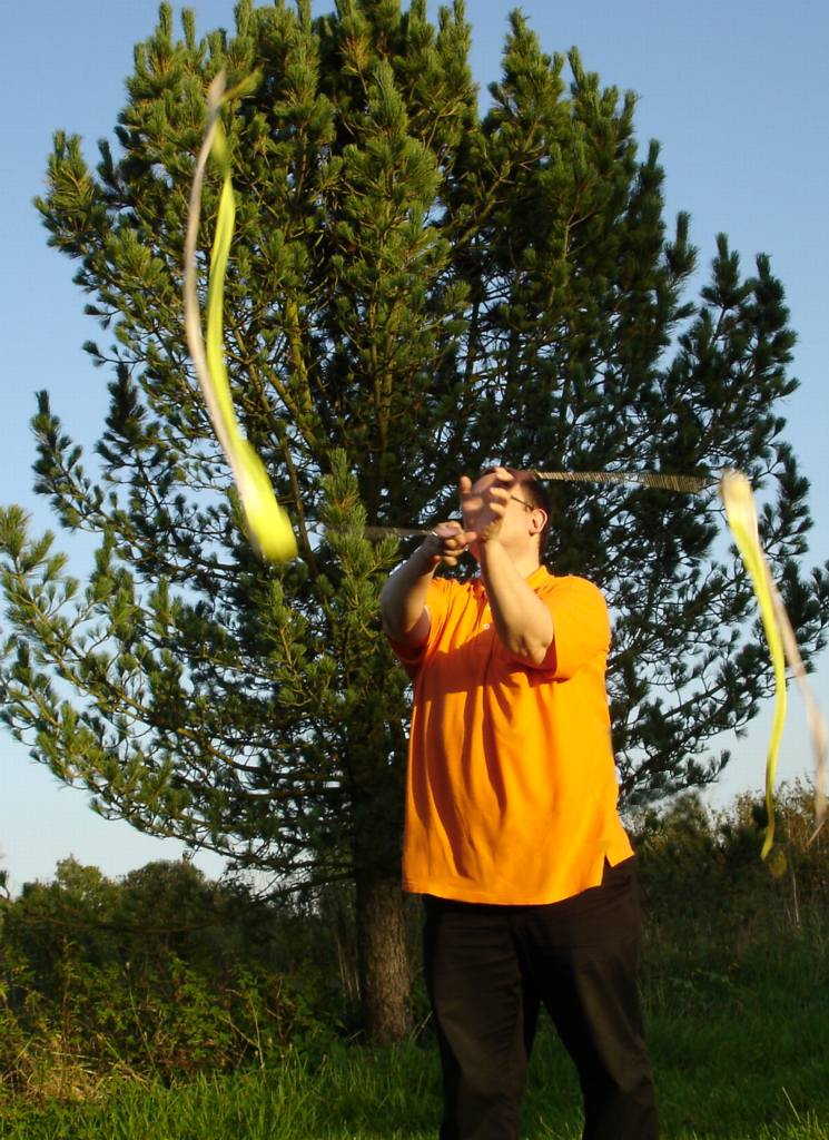 three beat weave with poi